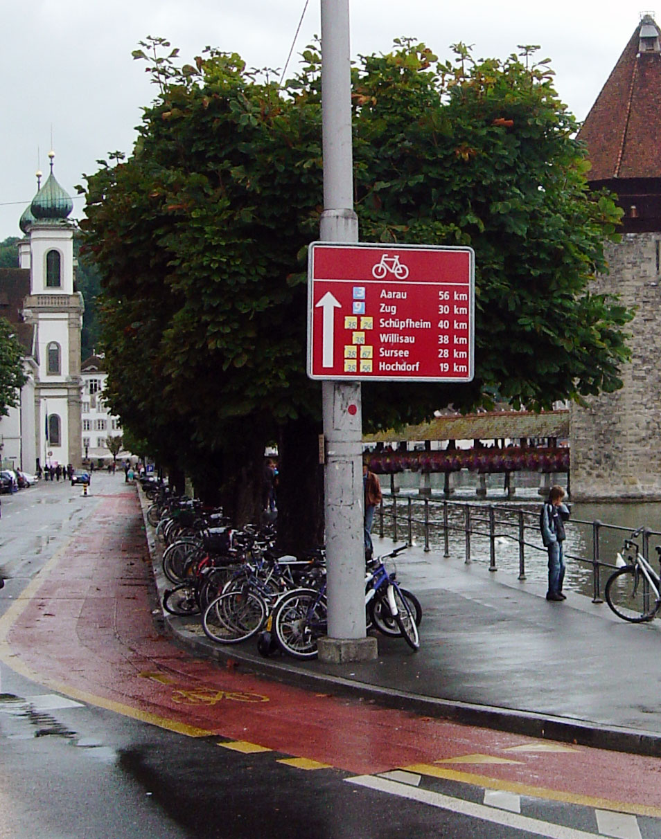 An urban bicycle path and a shield indicating cycling distances, as well as the corresponding national and regional cycle routes, in the city of Lucerne (Luzern), Switzerland. In the background, the iconic medieval Kappellbrücke.